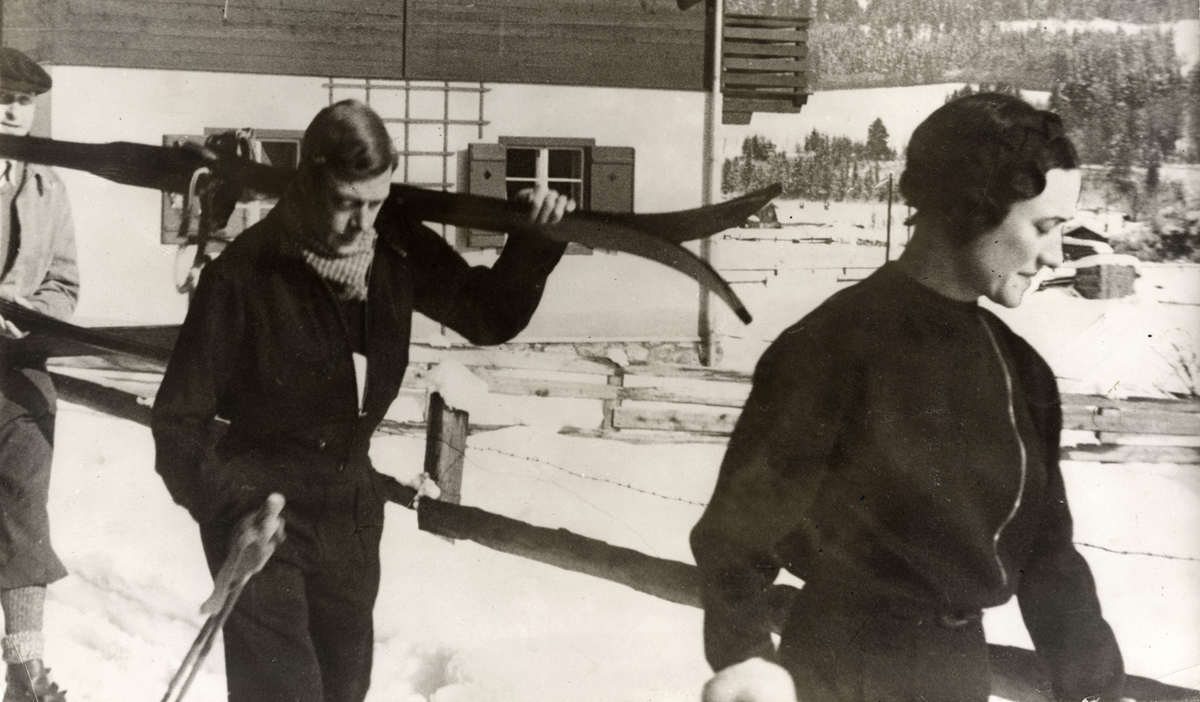 Wallis Simpson with the Prince of Wales at Kitzbühel, Austria, in February 1935 before they were married